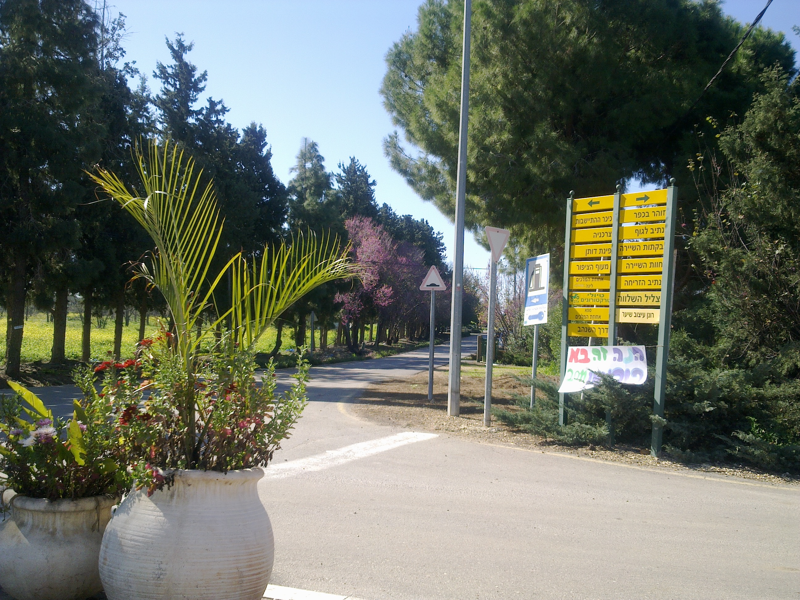 a street in Netiv Hashayara רחוב בנתיב השיירה